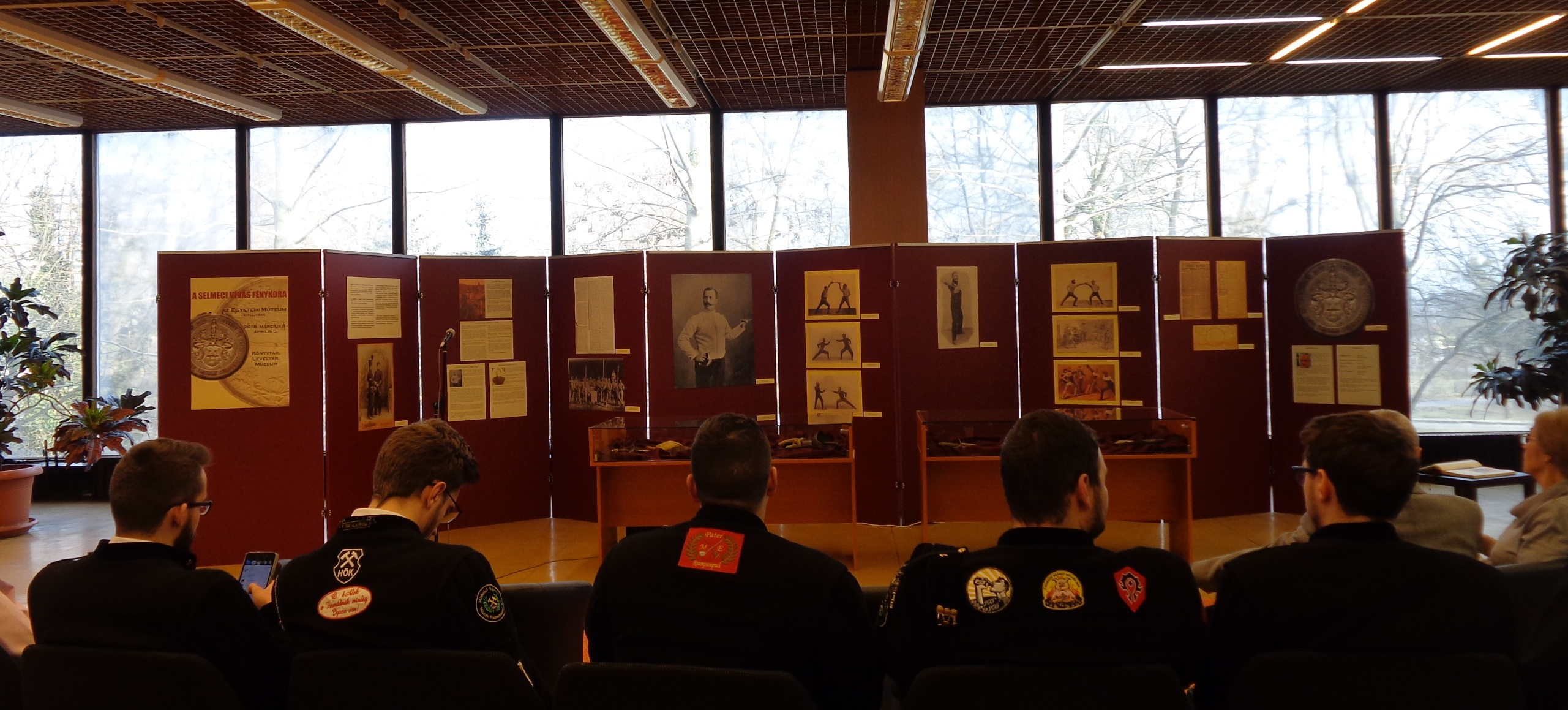 The opening ceremony of a fencing exhibition at a local library in Miskolc (Hungary)